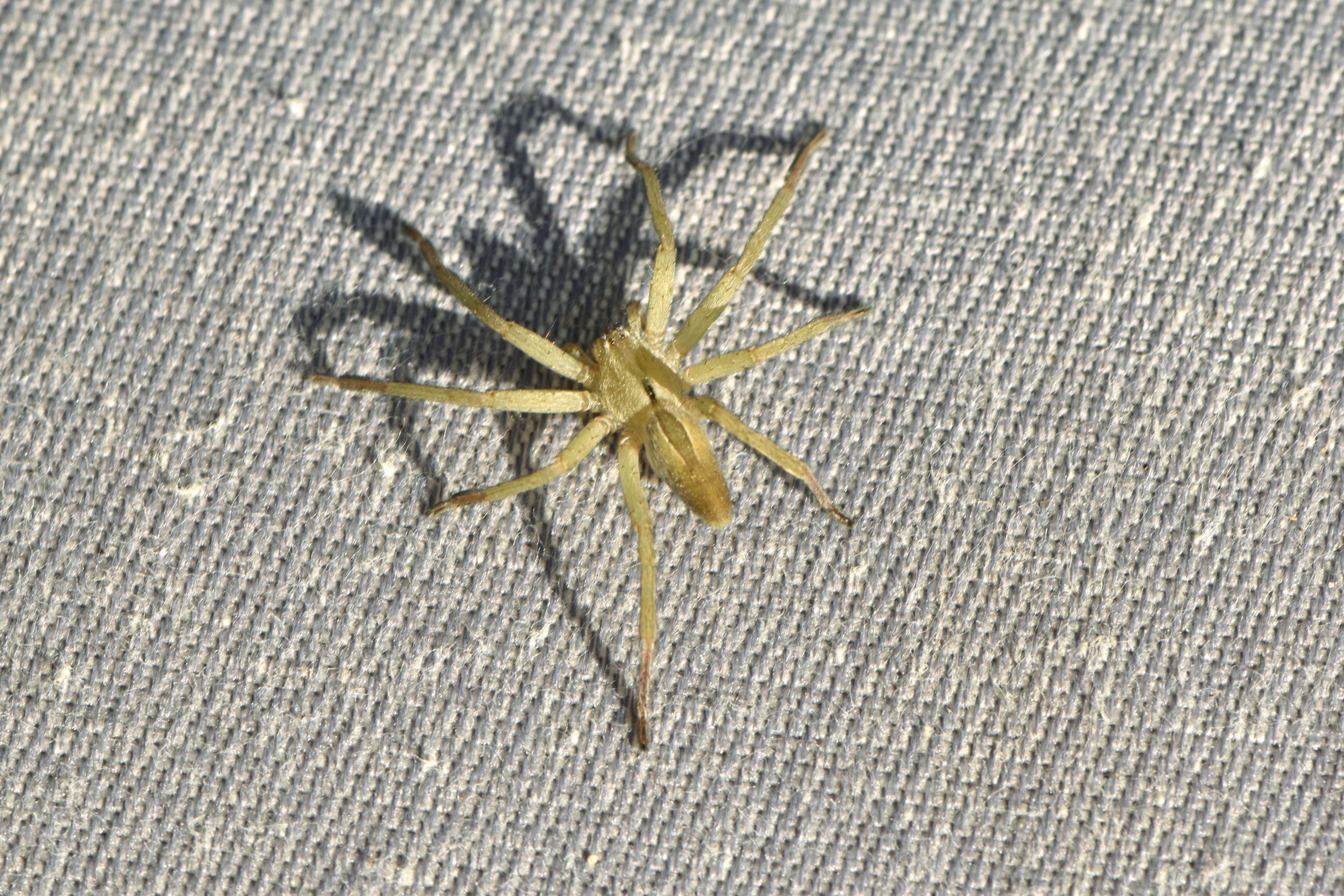 Micrommata ligurina, male.